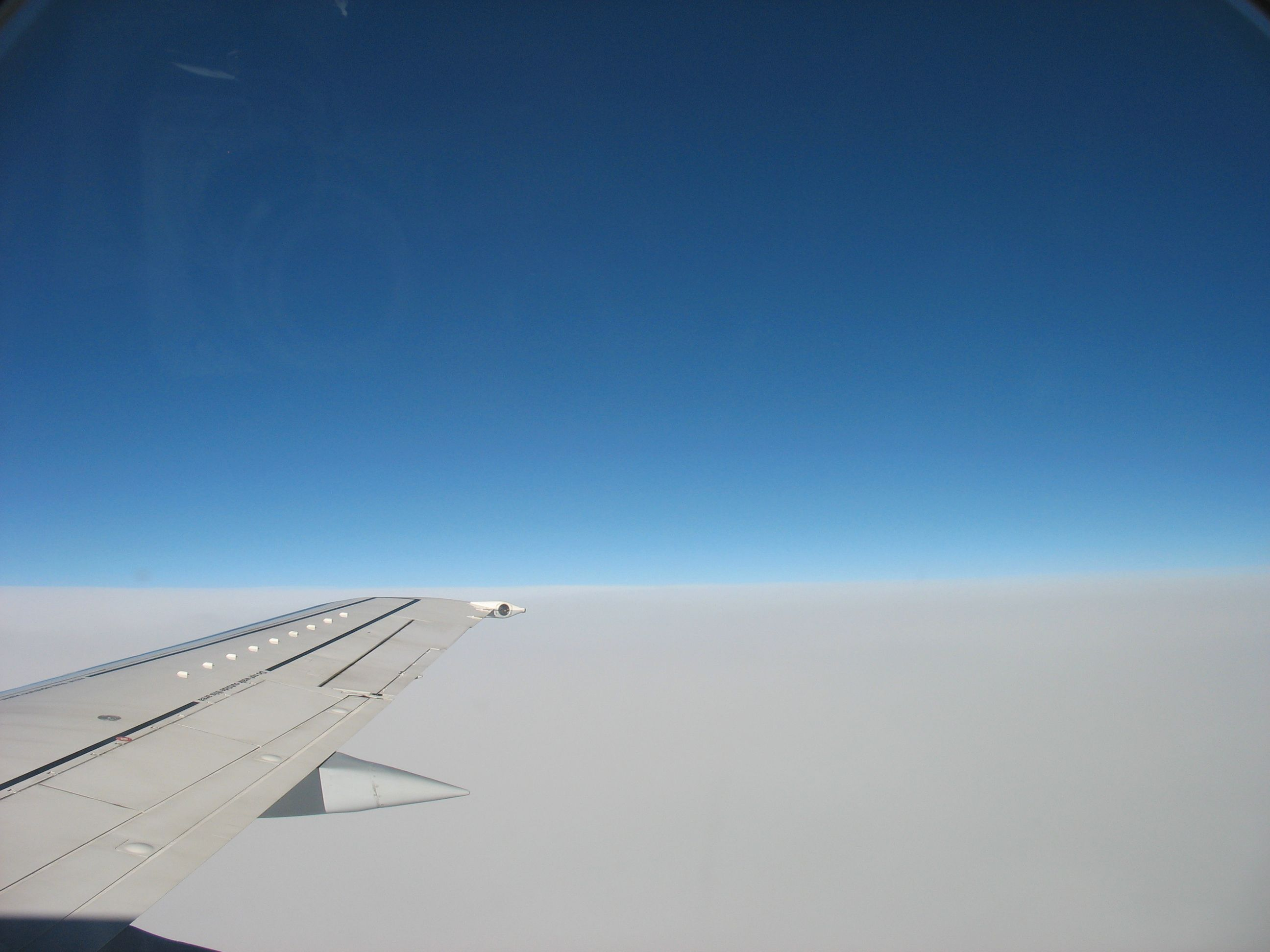 Sky at 30,000 feet (9 Km) altitude viewed from a commercial flight.